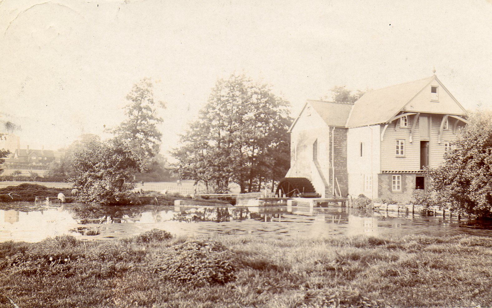 The watermill at Brasted, Kent. Postcard datestamped 26 September 1909.